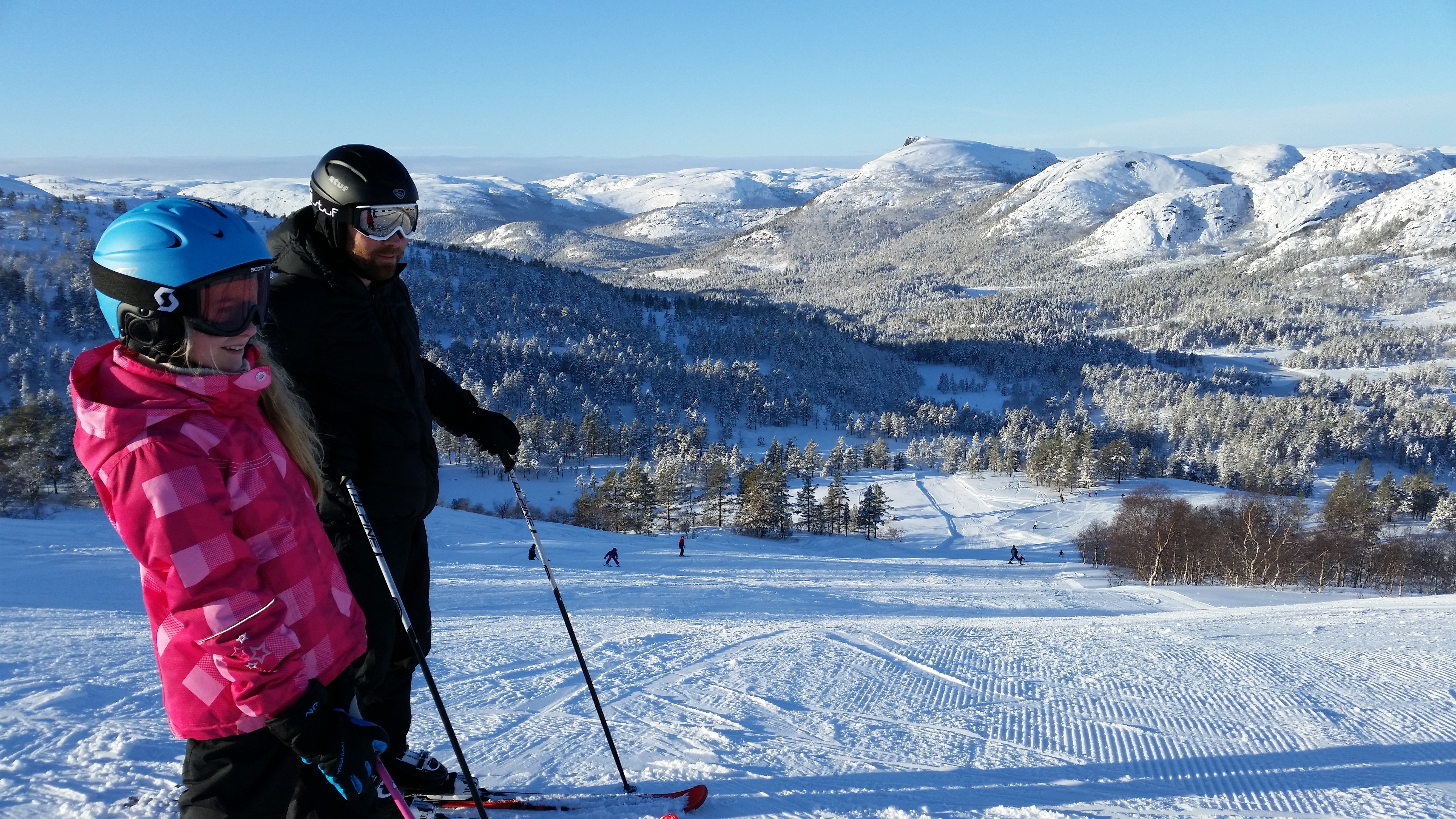 Knaben Ski Resort